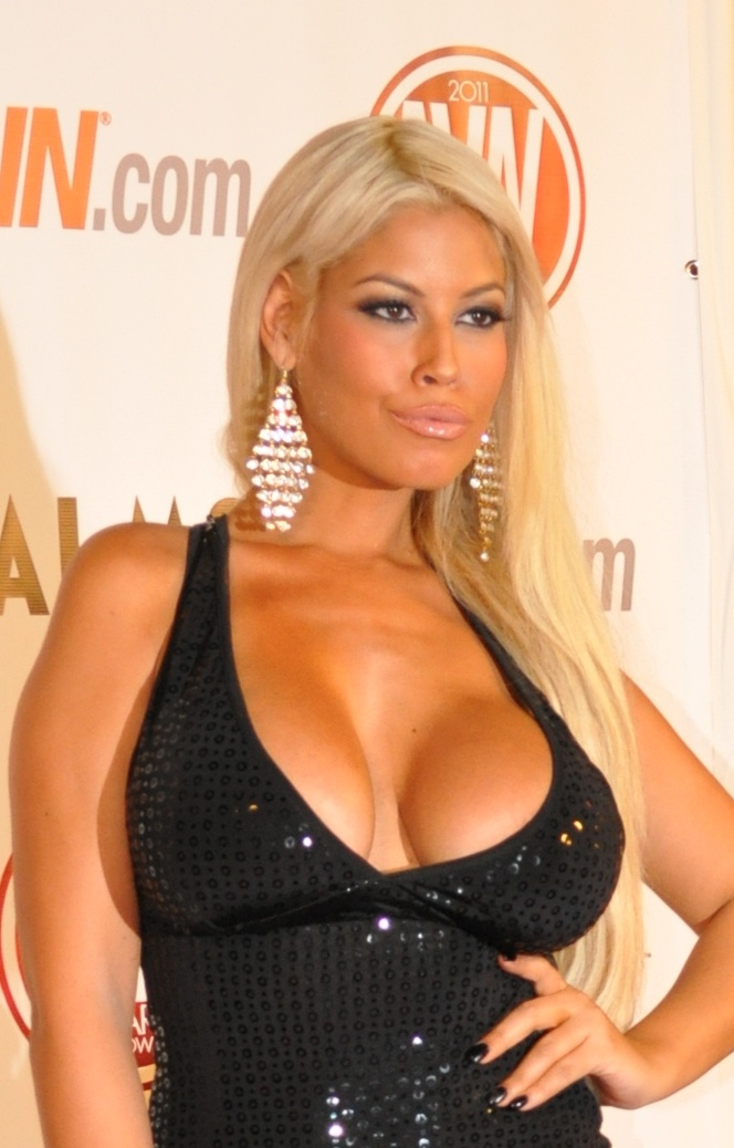 Bridgette B. at AVN Awards 2011